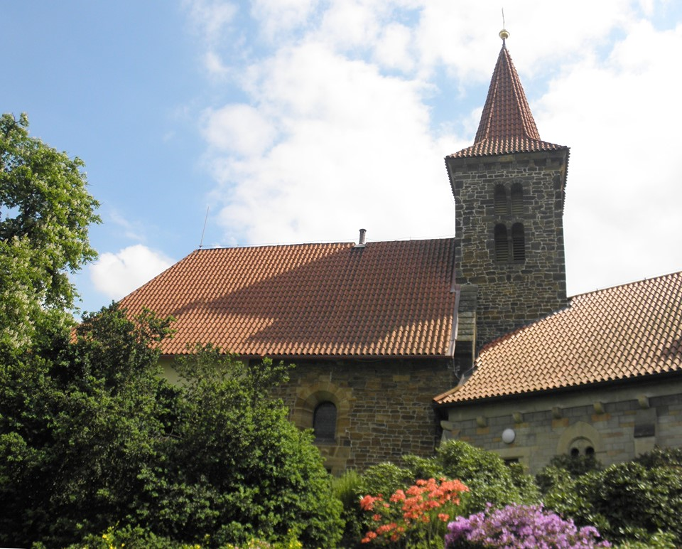 Průhonický kostel